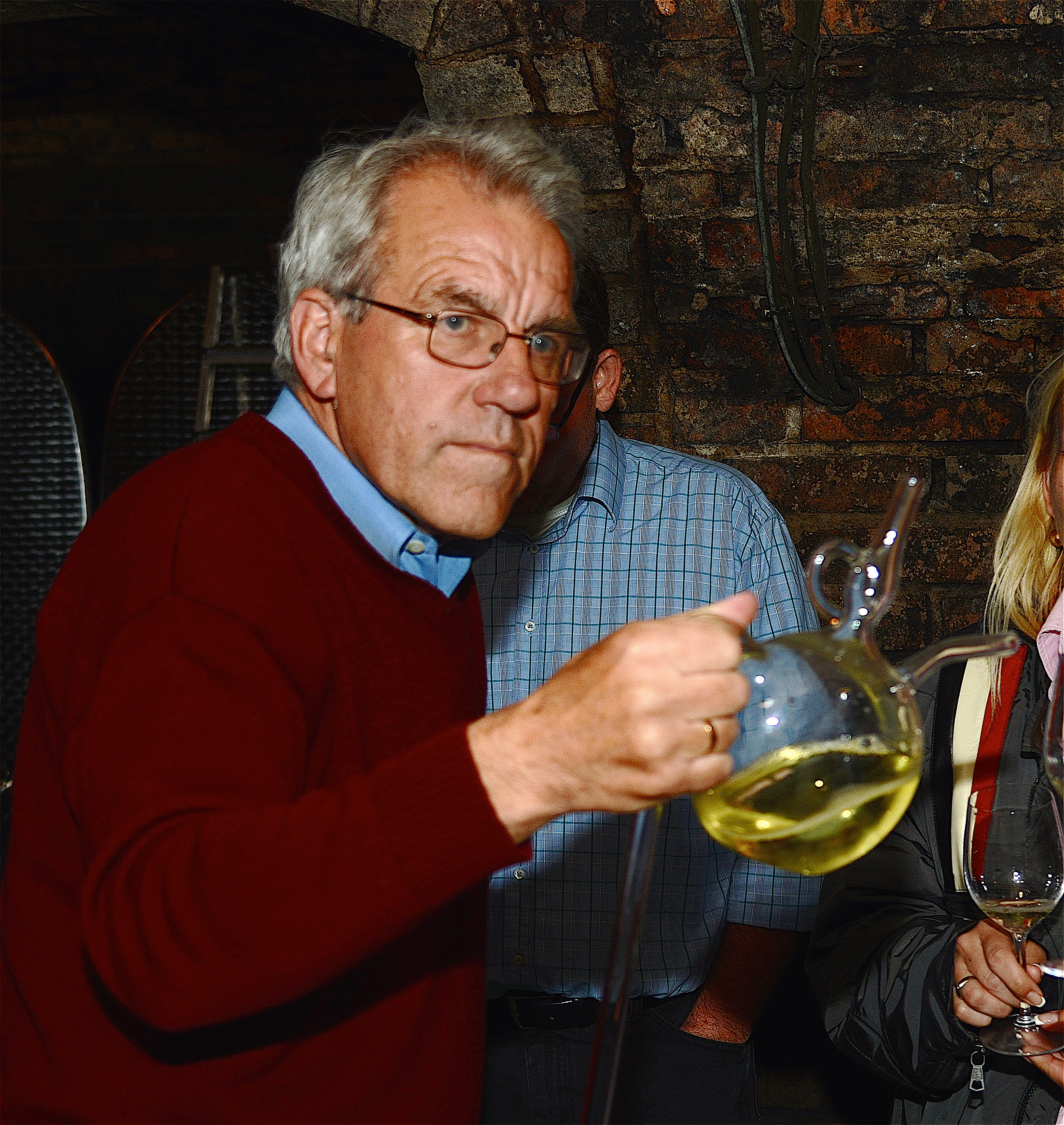 Emmerich Knoll, 2013